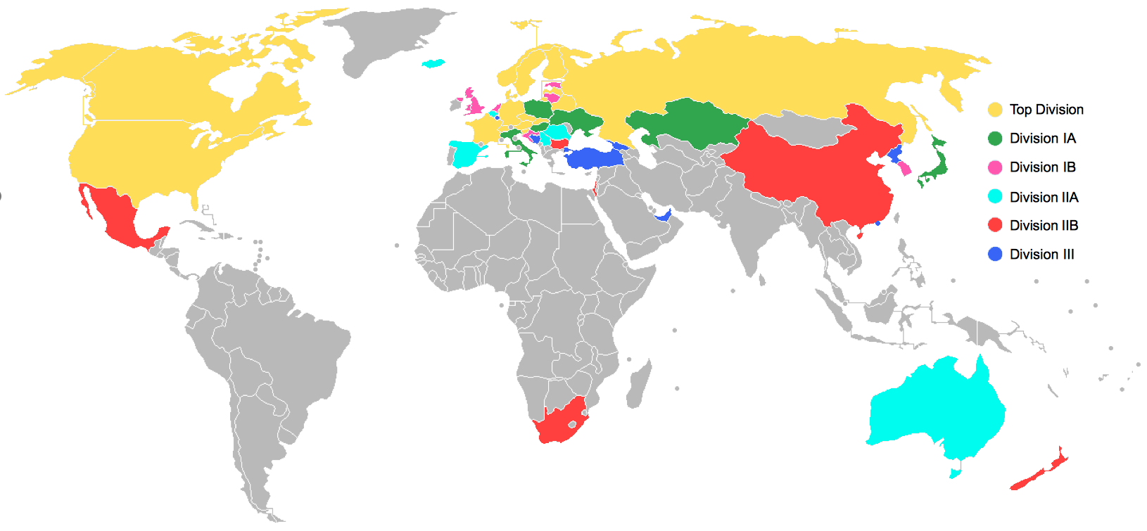 Nations participating in the 2015 IIHF World Championship, by Divisions